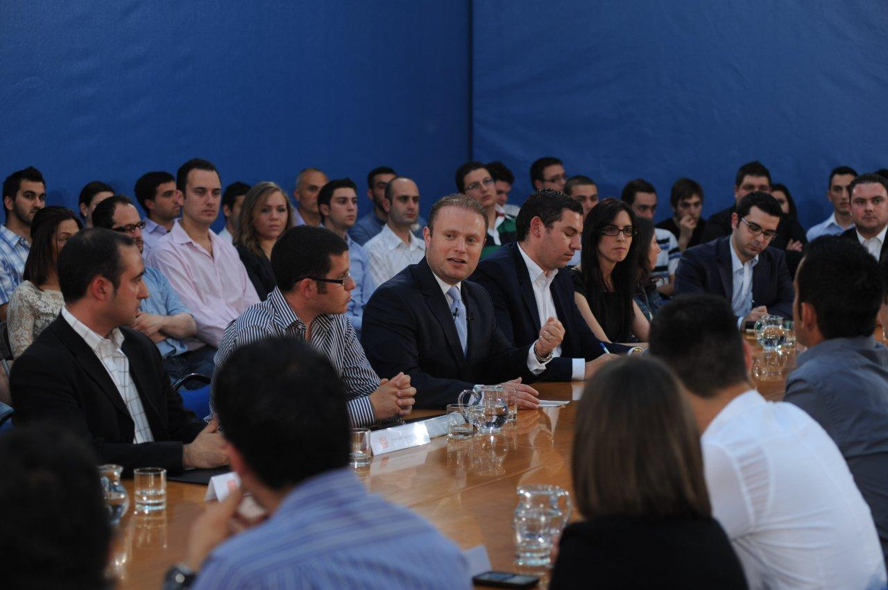 Joseph Muscat in dialogue with various Youth Forums in view of his proposals for the younger generation